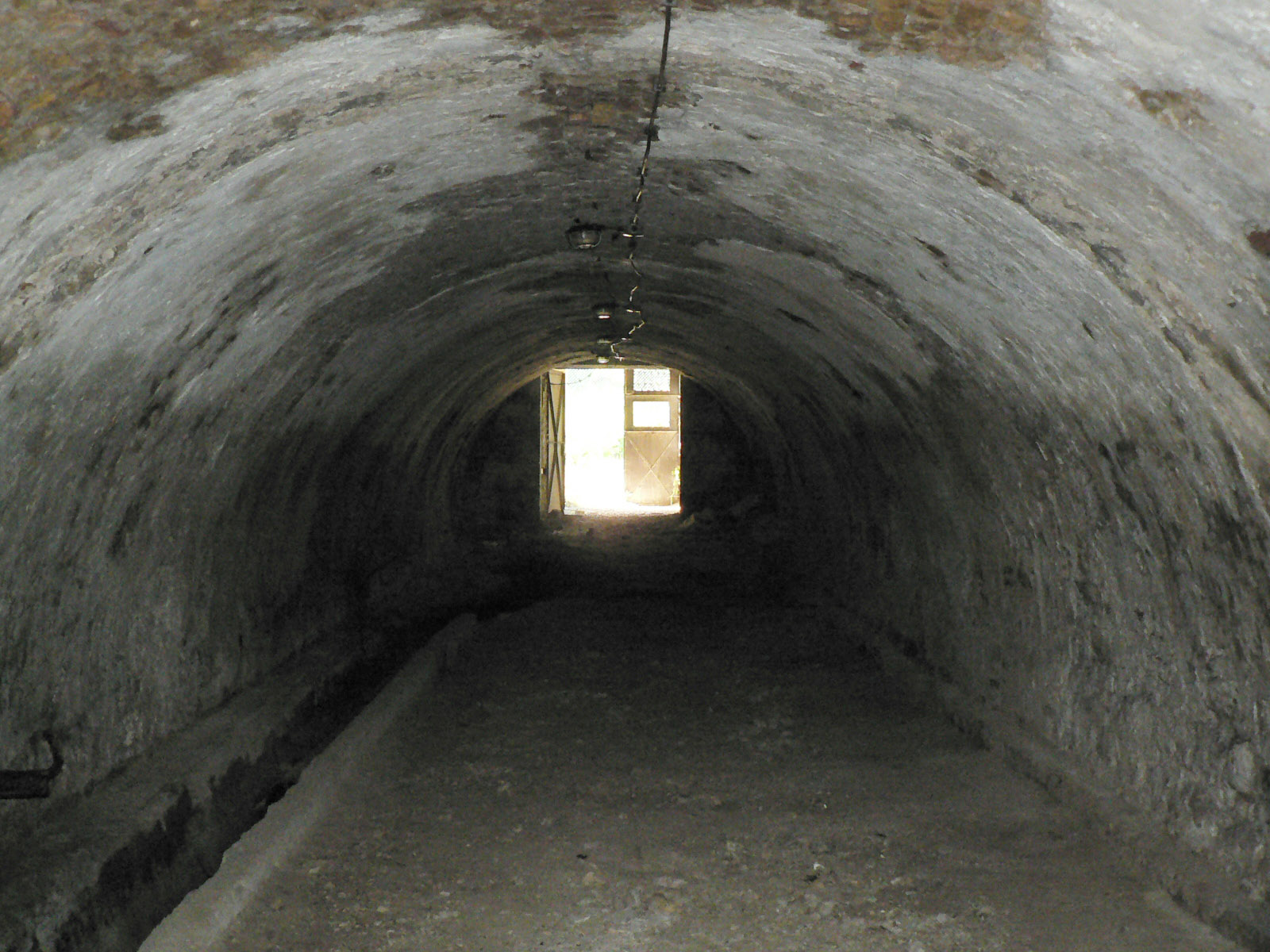 A Solymár-aknai segédtáró kifelé nézve